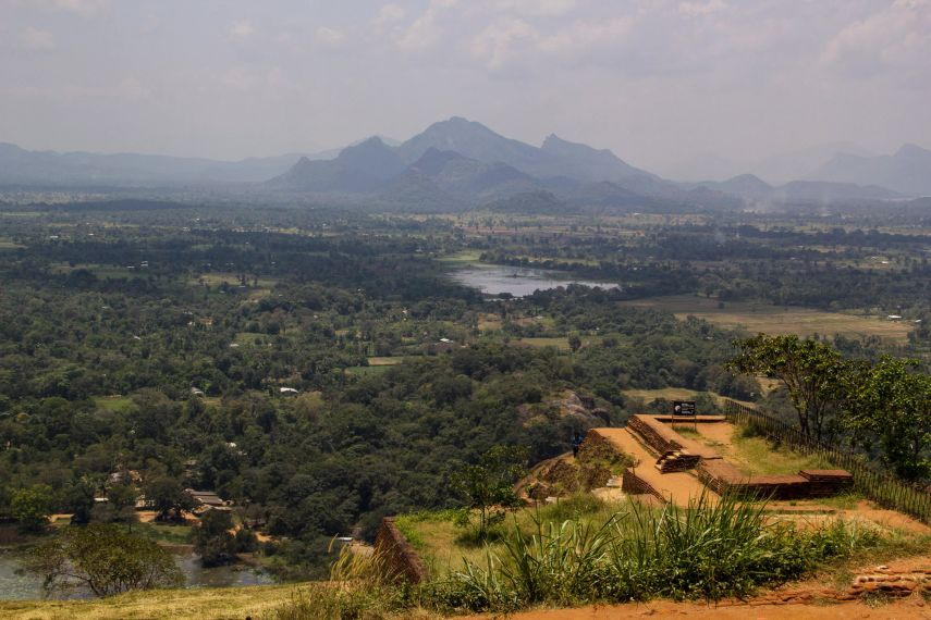 The amazing view from the top of Sigiriya rock.